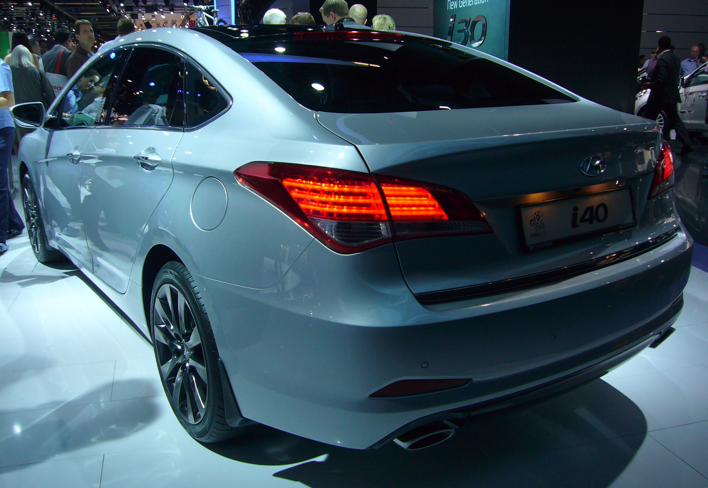 Hyundai i40 sedan at IAA Frankfurt 2011